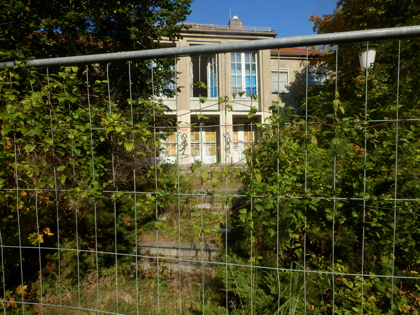 Königin-Luise-Straße 15